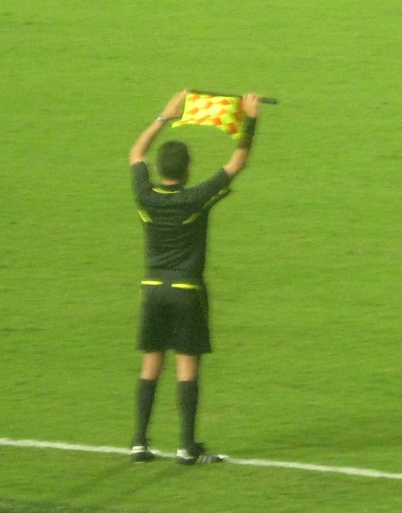 Assistant referee signalizing substitution